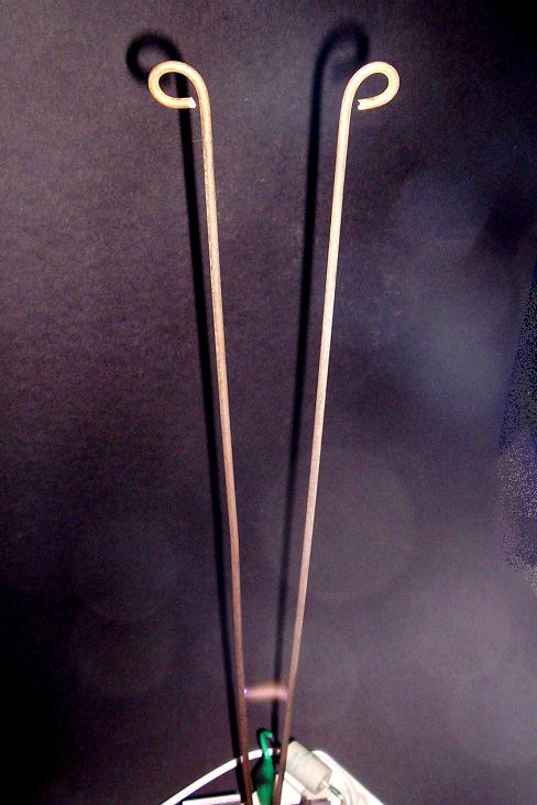 A Jacobs Ladder (Jakobsleiter), a high voltage entertainment display device. It consists of two metal rods in a shallow V shape, that gradually spread apart, connected at the bottom to the terminals of a high voltage transformer. When the power is turned on, a continuous electric arc appears at the bottom of the rods. Because the electricity heats the air, the arc rises, "climbing" the rods, getting longer as it goes up, until the gap is too wide and the arc extinguishes. Then a new arc appears at the bottom and begins climbing. In this picture the arc has just begun climbing. The voltages used are in the range 3000 - 15000 volts. Jacobs Ladders are sometimes seen in old science fiction movies.